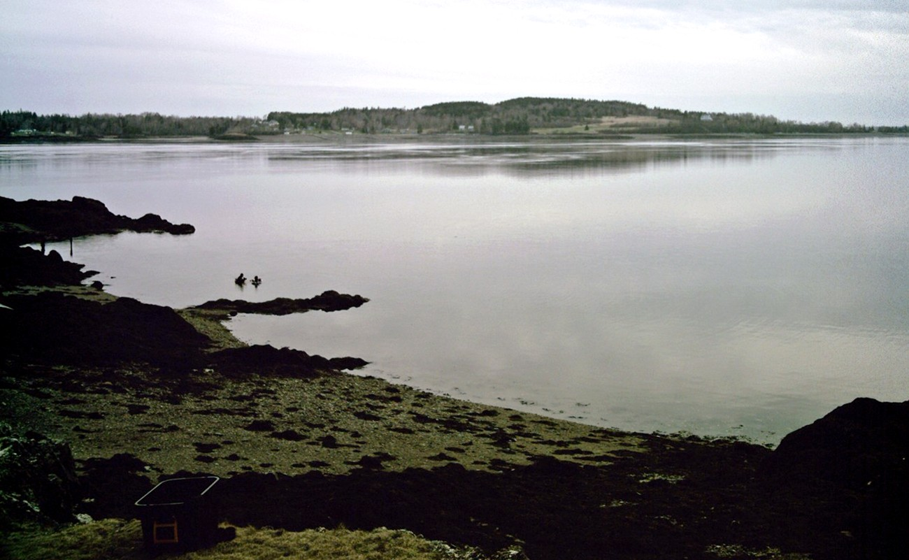 CanCat Beach, Deer Island (N.B.)